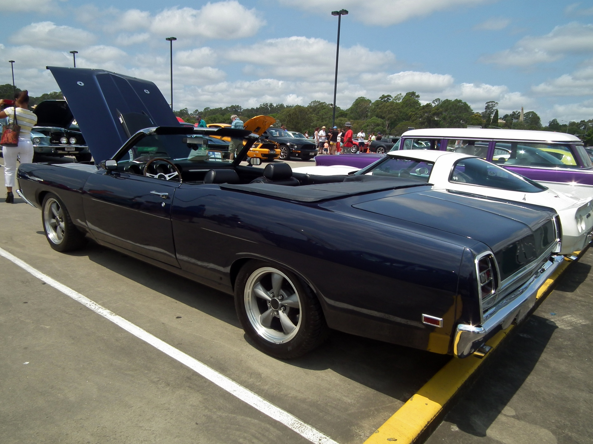 1969 Ford Torino GT convertible. Taken at the 2014 New South Wales All American Day, held at Castle Towers Shopping Centre, Castle Hill, Sydney.